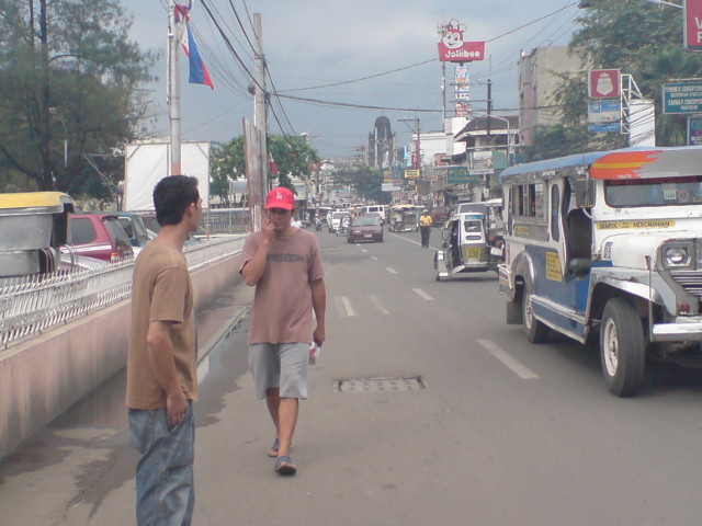 Poblacion Santa Maria, Bulacan